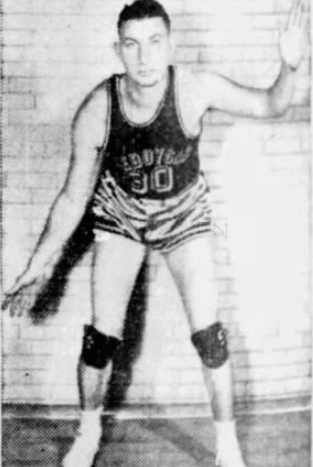 A picture of Les Kuplic c. 1938